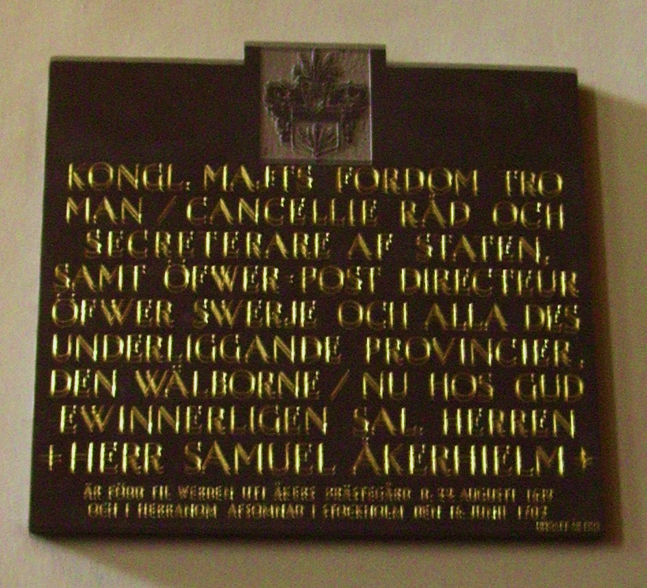 Picture of Samuel Åkerhielm the elders grave at Klara kyrka in Stockholm